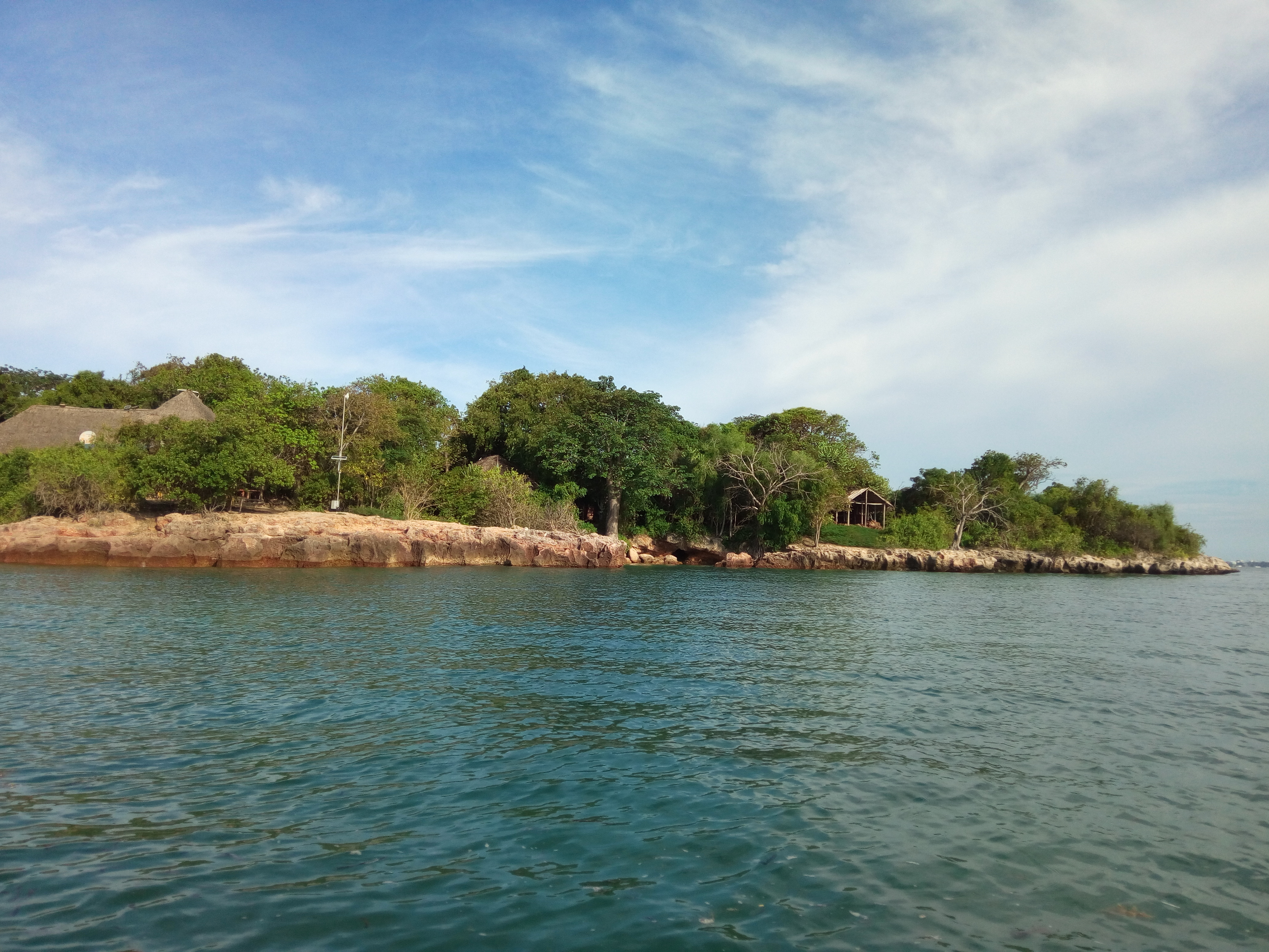 amazing beach in Dar es Salaam